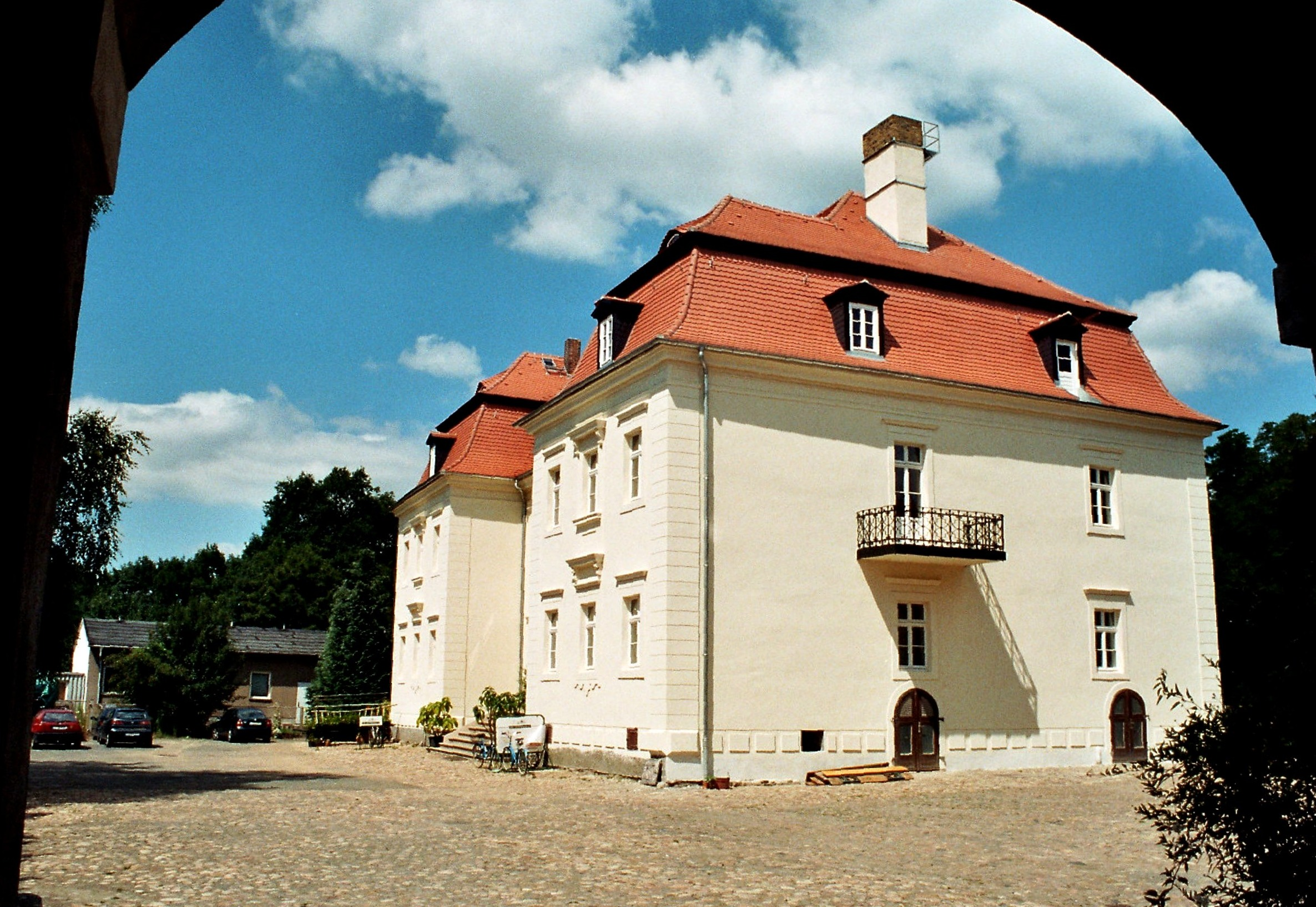 Markkleeberg, the manor house